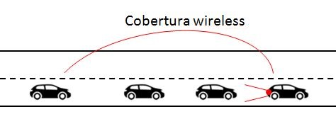 MODIFI